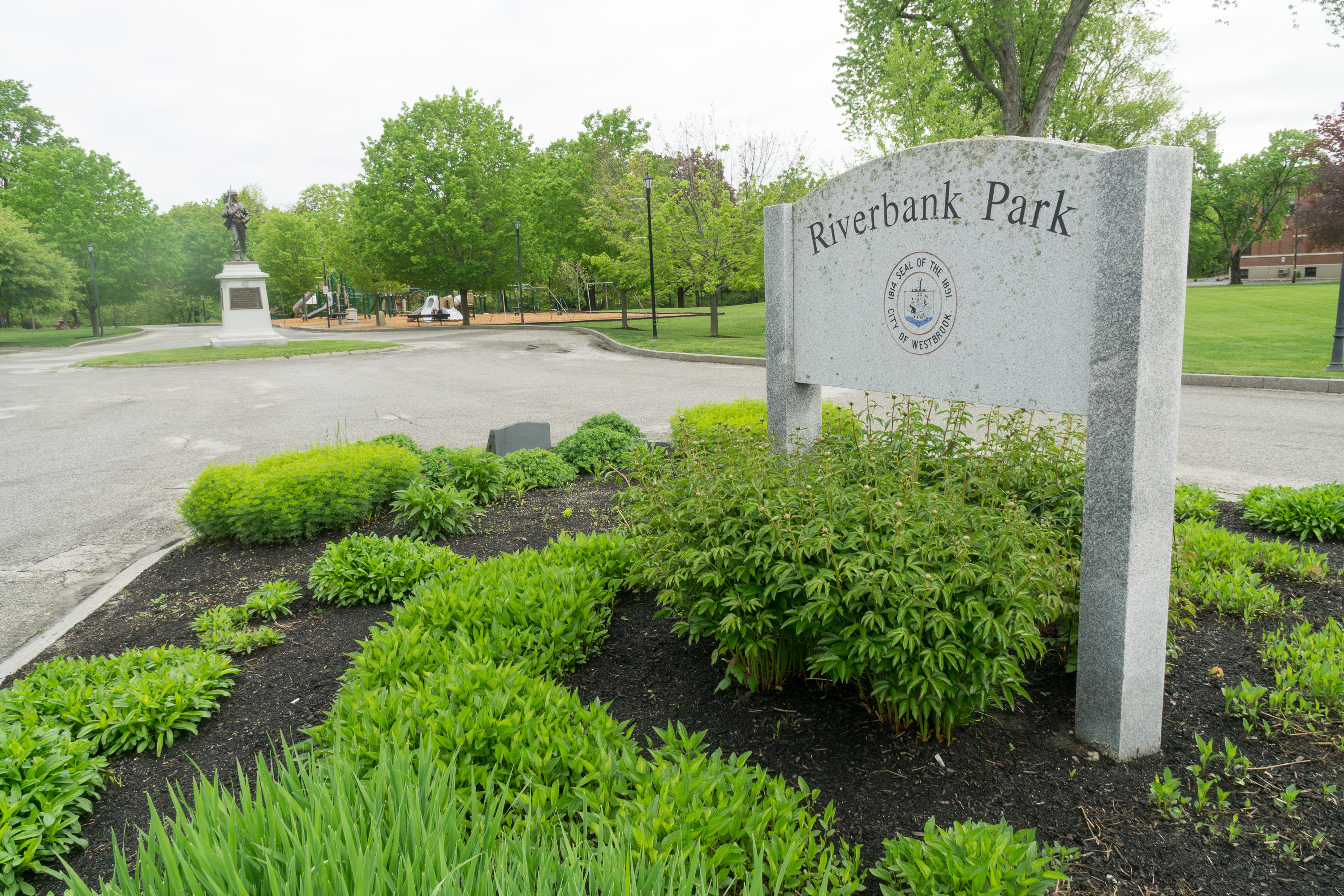 Riverbank Park, Westbrook, Maine